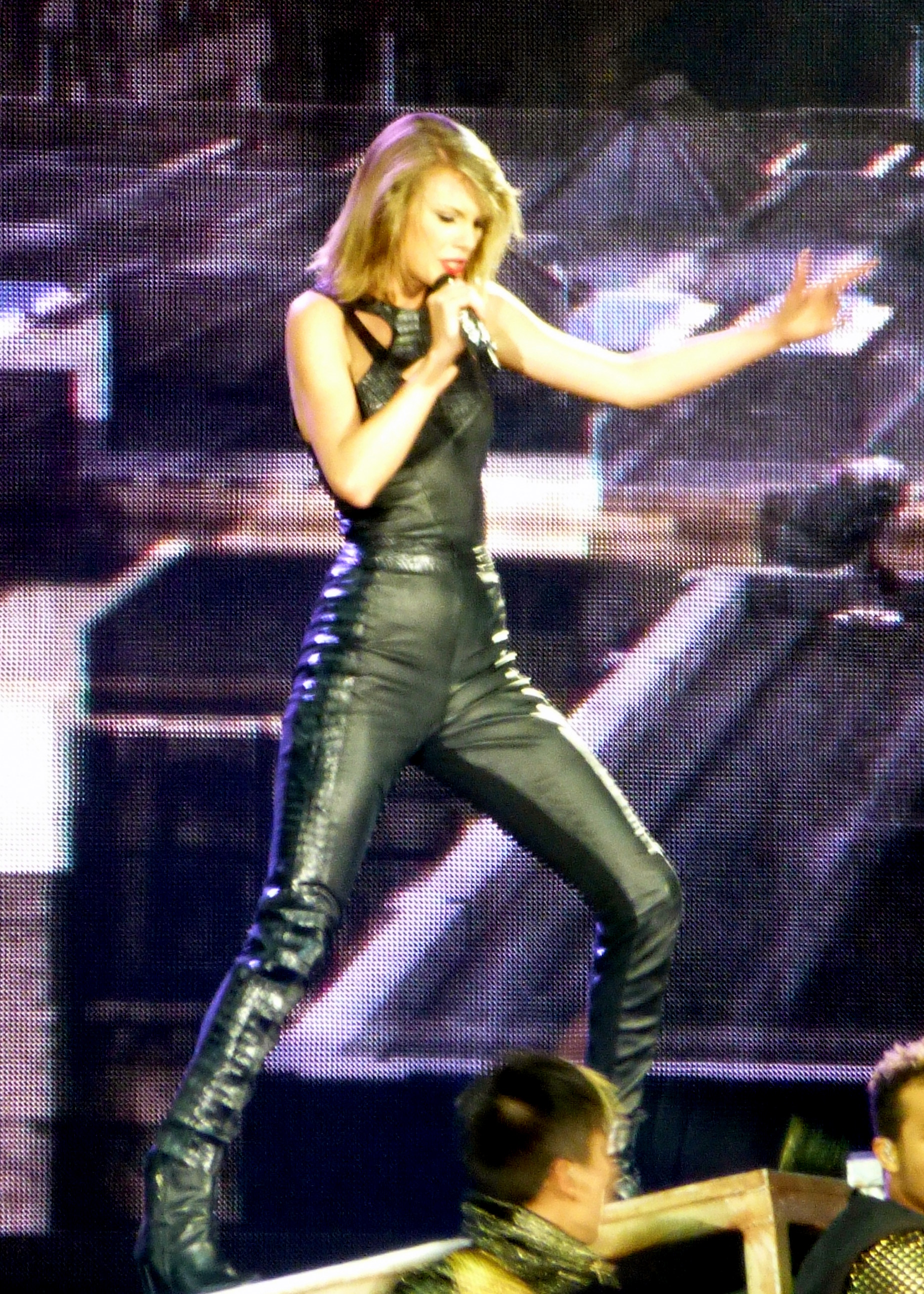 Taylor Swift 1989 Tour at Ford Field in Detroit, 5/30/15